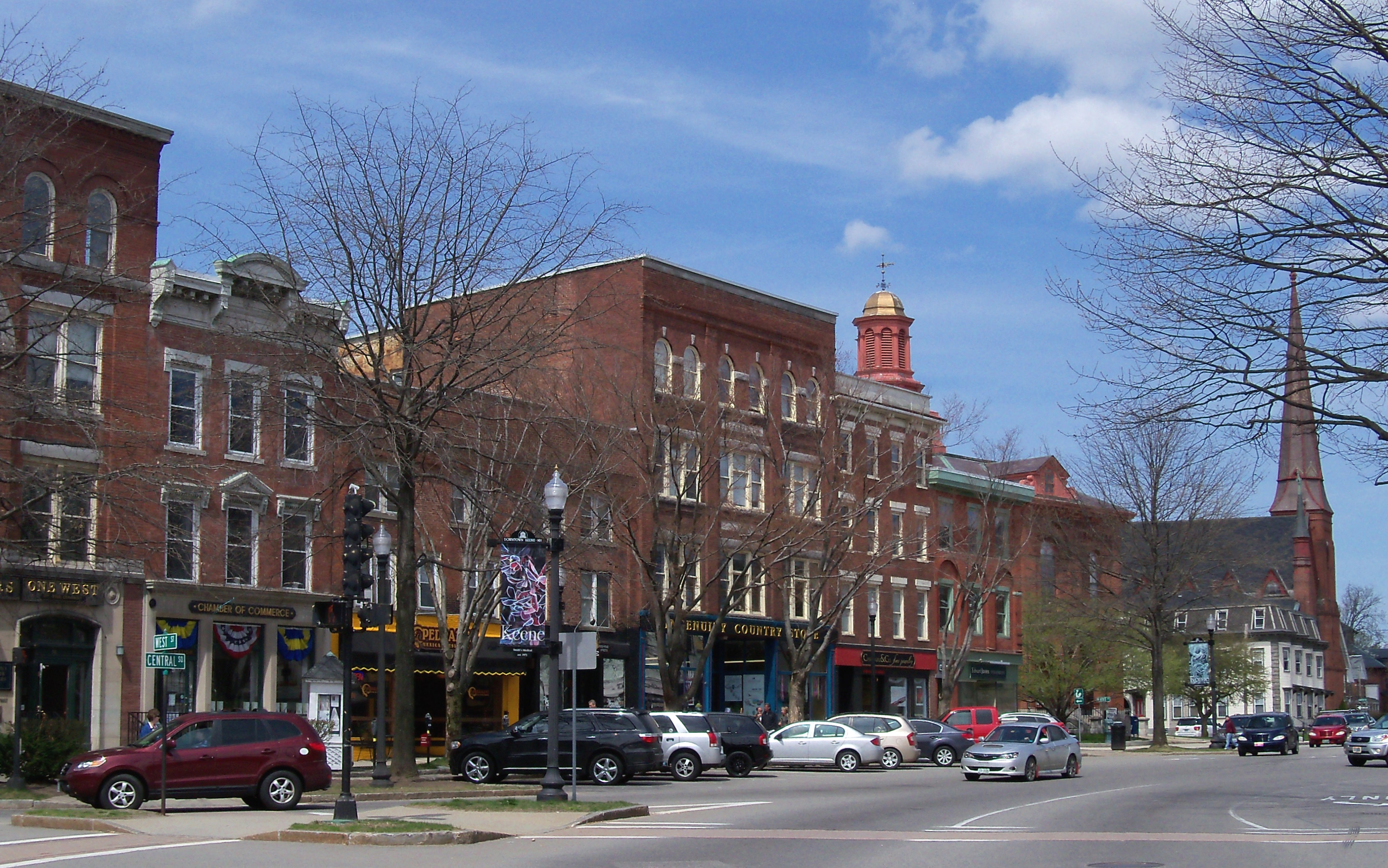 Main Street in downtown Keene, New Hampshire, USA.